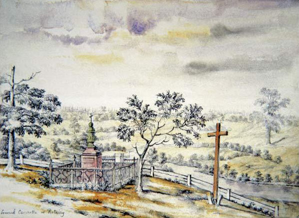 Rotnica, Napaleon Orda